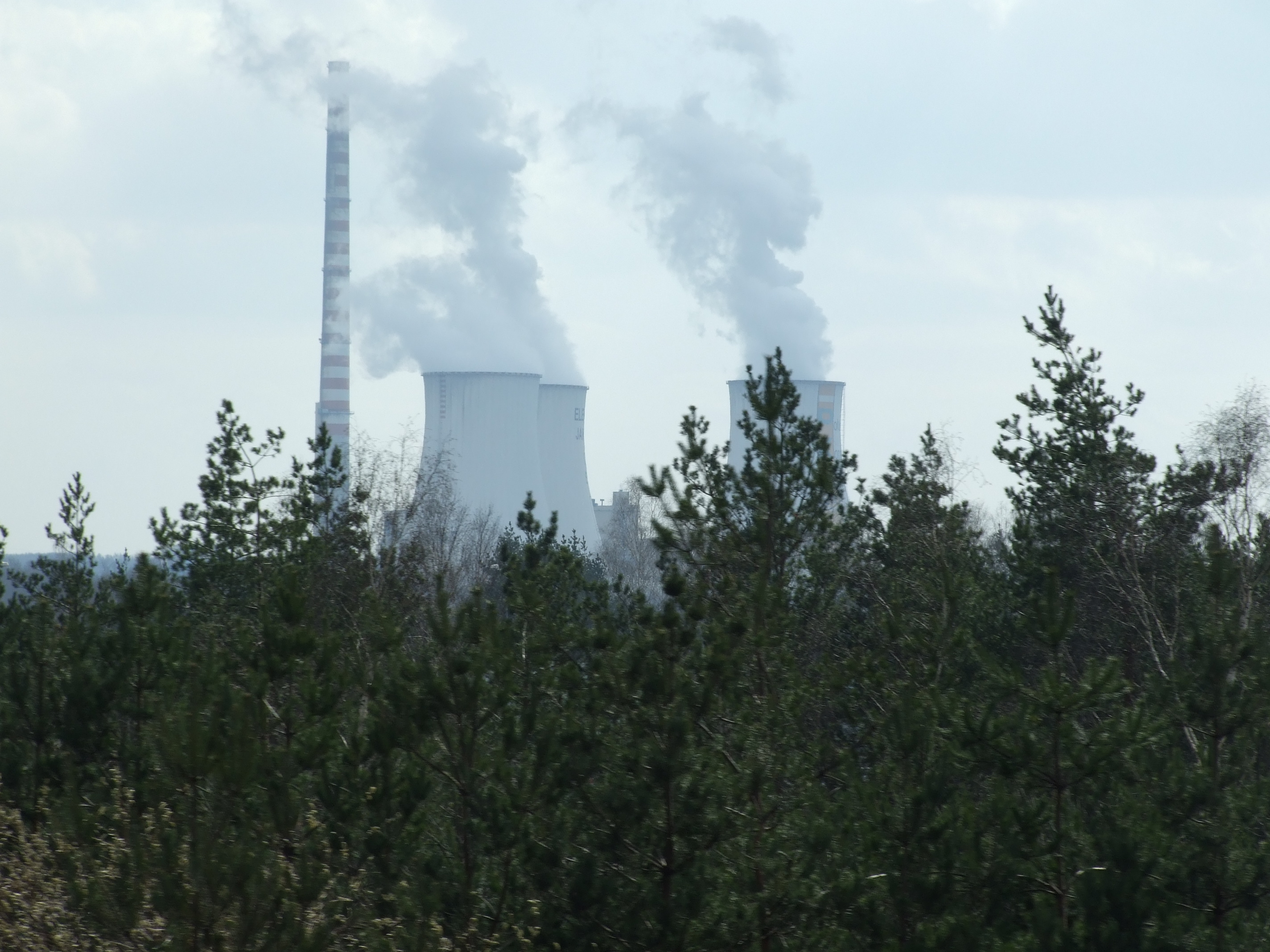 Jaworzno coal power plant in Poland